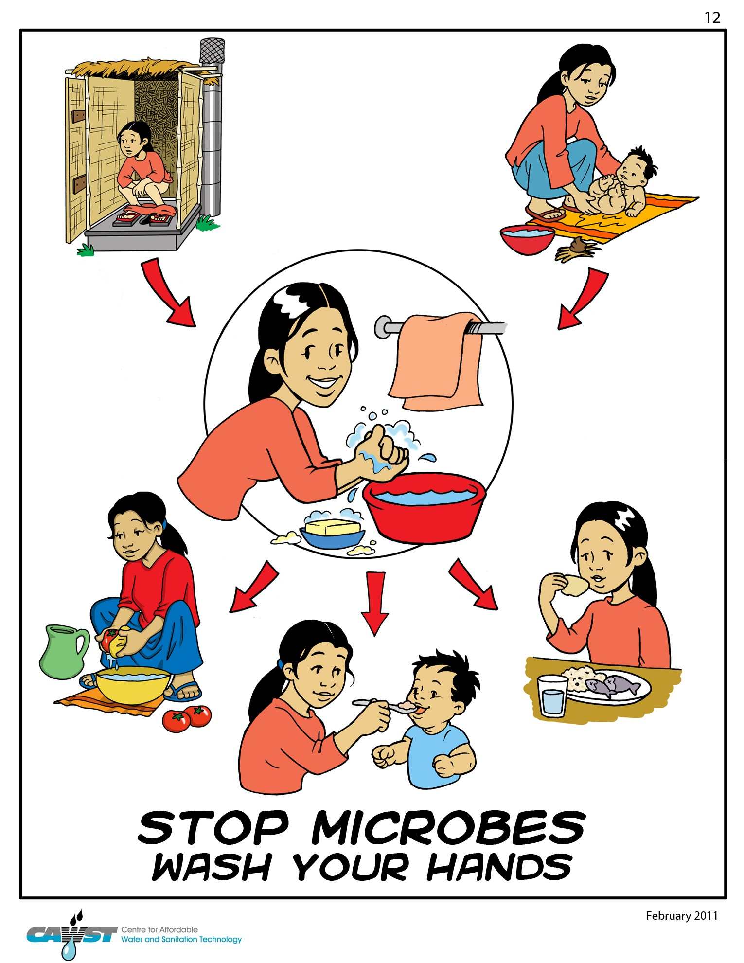 Poster about the importance of water for good hygiene. Used to raise awareness on that topic. CAWST (Centre for Affordable Water and Sanitation Technology) All our resources are open content under the Creative Commons license. They are free to use or modify; for attribution, we ask you cite CAWST as the source.